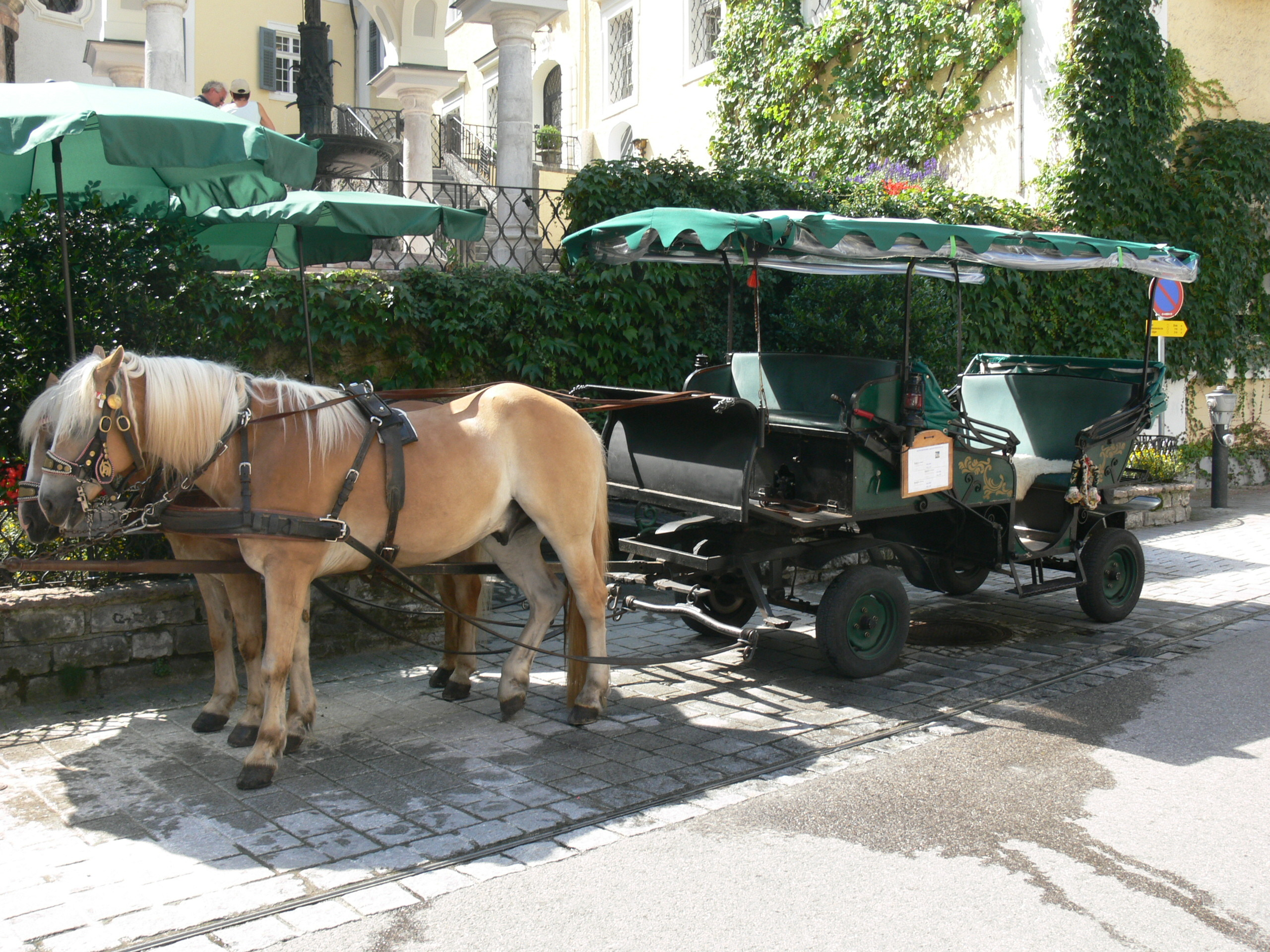 Charabanc. Sankt Wolfgang im Salzkammergut ( Upper Austria ). Carriage for tourist round trips.